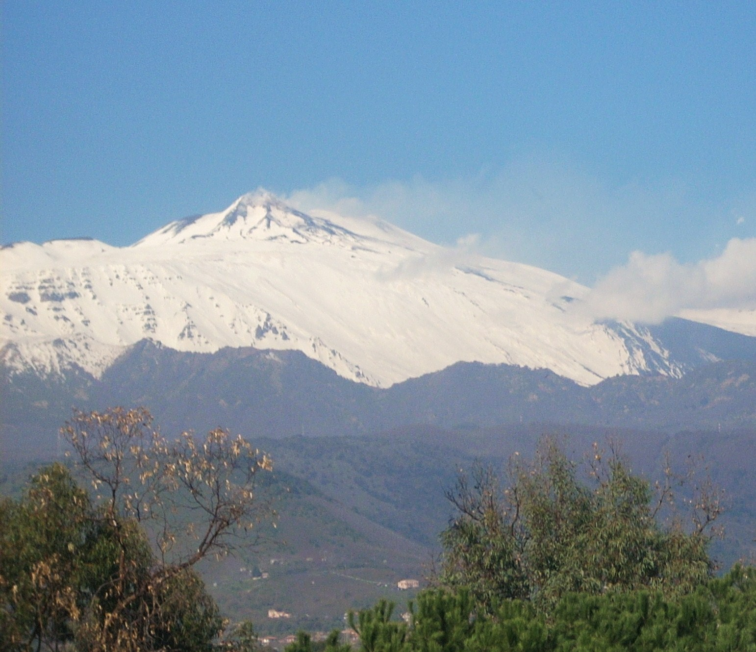 Mount Etna, Sicily, topped in snow